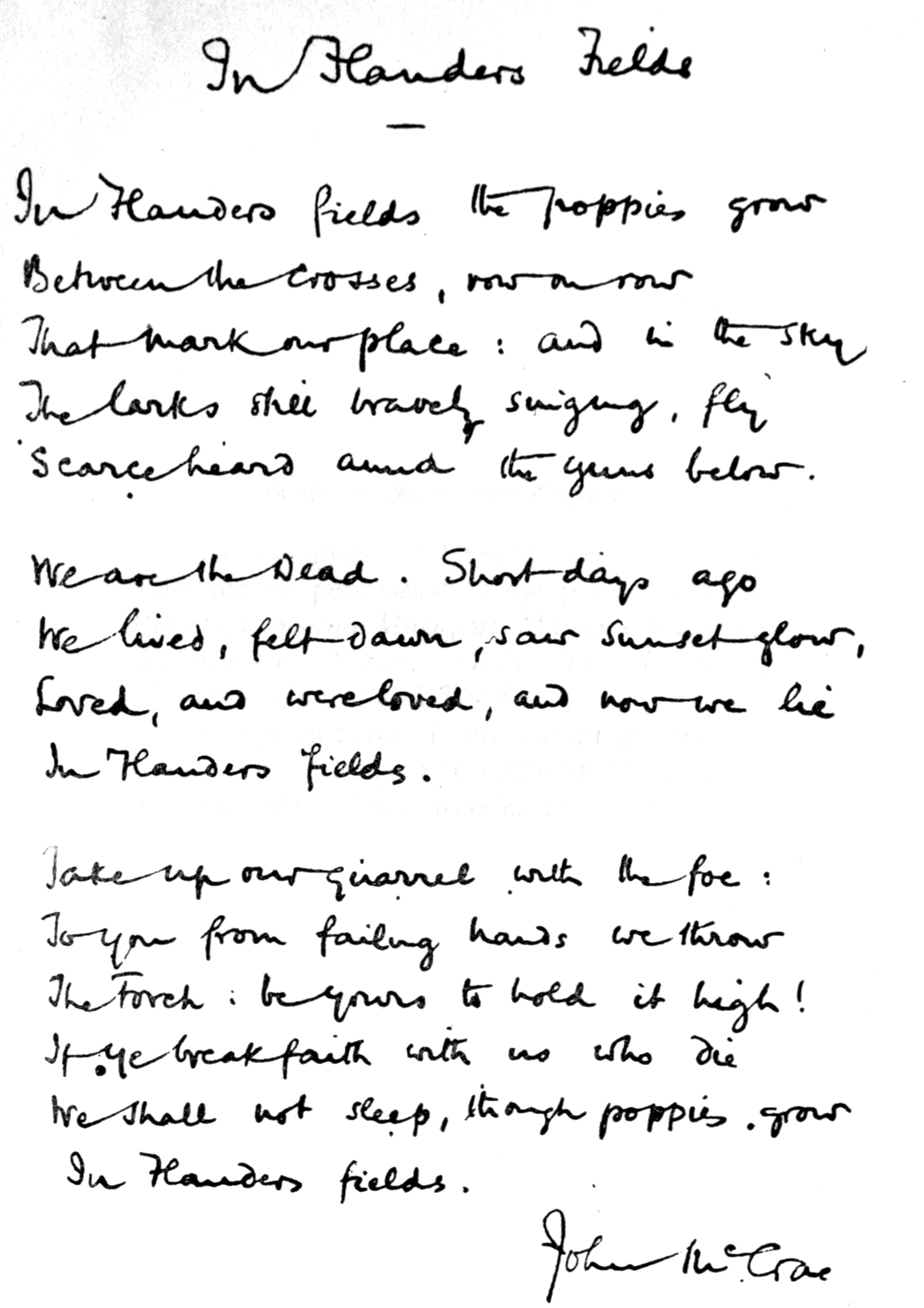 Facsimile of handwritten version of McCrae's "In Flanders Fields", in a volume of his poetry where an acknowledgement is given "The reproduction of the autograph poem is from a copy belonging to Carleton Noyes, Esq., of Cambridge, Mass., who kindly permitted its use."